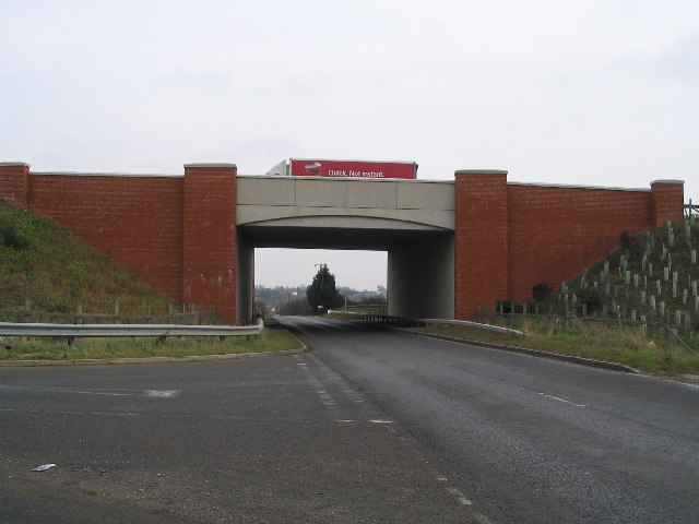 A130 Bridge. Bridge carrying the new A130